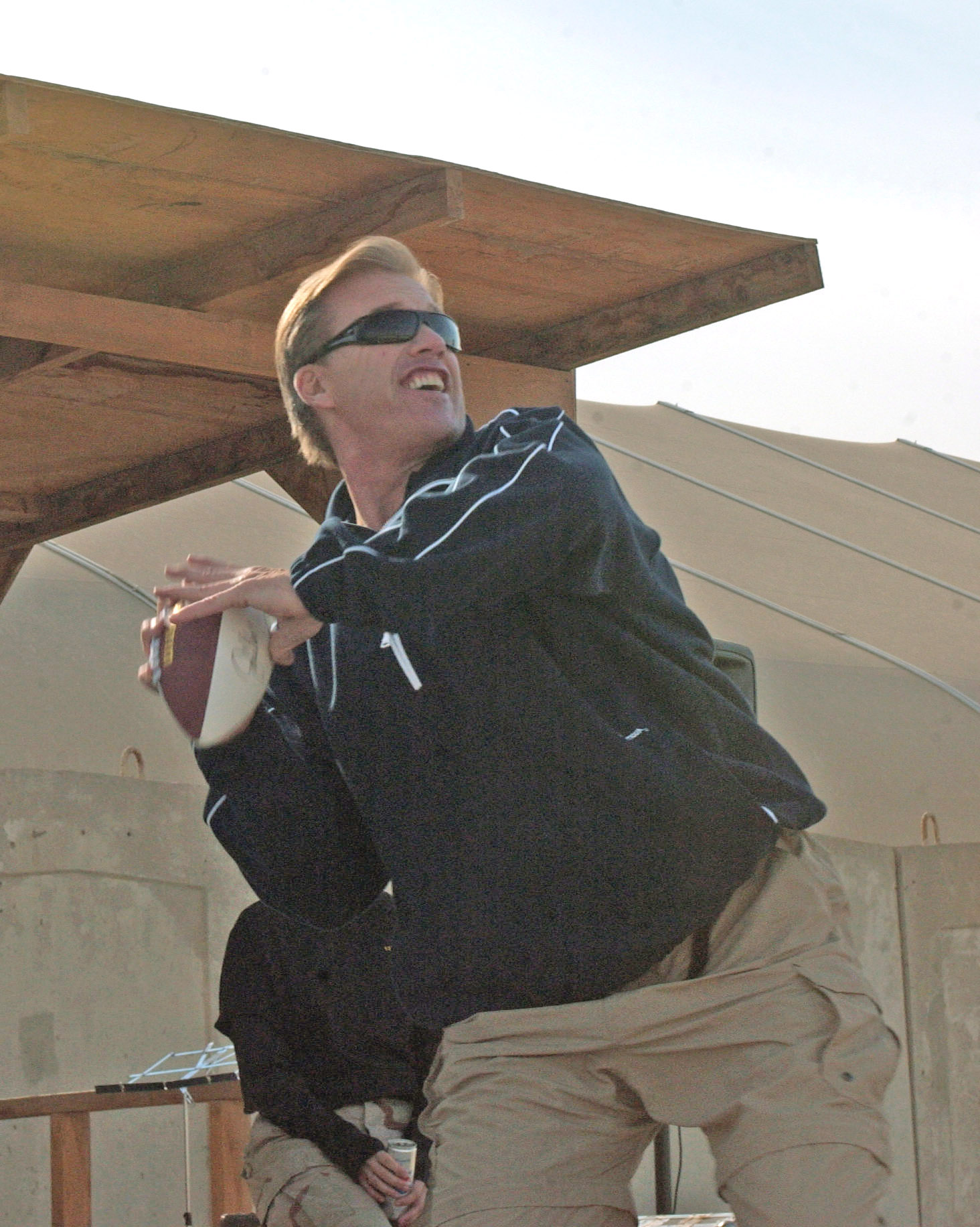 Soldiers at Camp Liberty, Baghdad enjoyed (a good morning in Baghdad) with Robin Williams, John Elway, Blake Clark, and Lee Ann Tweeden, entertainers of the USO Tour. Each entertainer brought their own eclectic style to the stage with elements such as; the all American game of football, comedic relief, and even a humorous parody on politics, news and sports currently happening in the U.S.